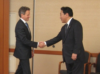 Timothy F. Geithner, Secretary of the Treasury, met with Yoshihiko Noda, Minister of Finance, at the site of the Asia-Pacific Economic Cooperation Finance Ministers meeting in Kyōto City, Kyōto Prefecture on November 6, 2010.